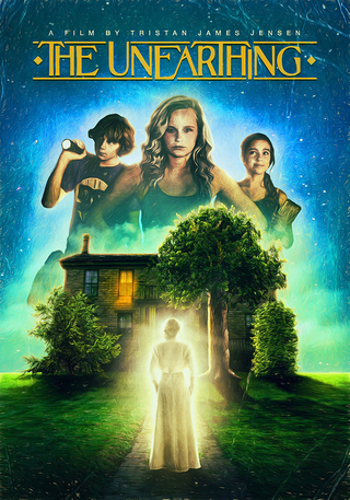 The official poster for The Unearthing, created by Sándor Szalay of The SonnyFive